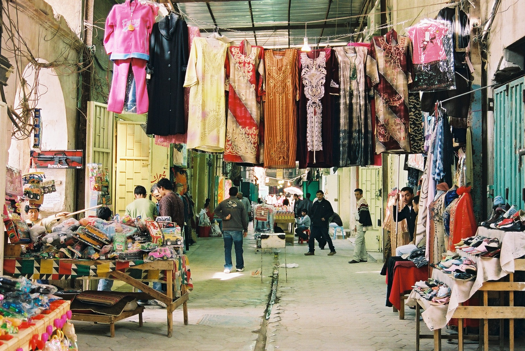 The photo is a street in the covered market taken by Chris Griffiths